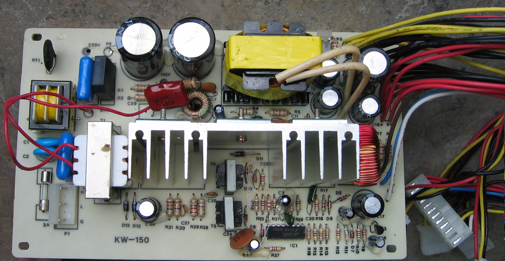 XT PC Power Supply PCB - Component Side